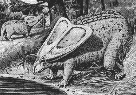 Outdated drawan of a torosaurus